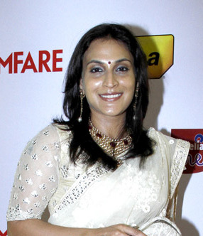 Aishwarya R. Dhanush at the 61st Filmfare Awards South, 2014